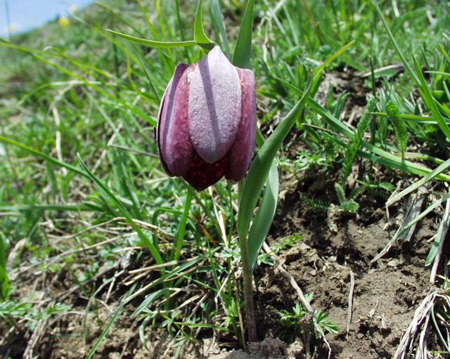 (en) Fritillaria tubiformis, a photography originating of the internet site The accord of the autor, H. Brisse, is here. (fr) Fritillaria tubiformis, une photographie issue du site internet L'accord de l'auteur, H. Brisse, se situe ici.